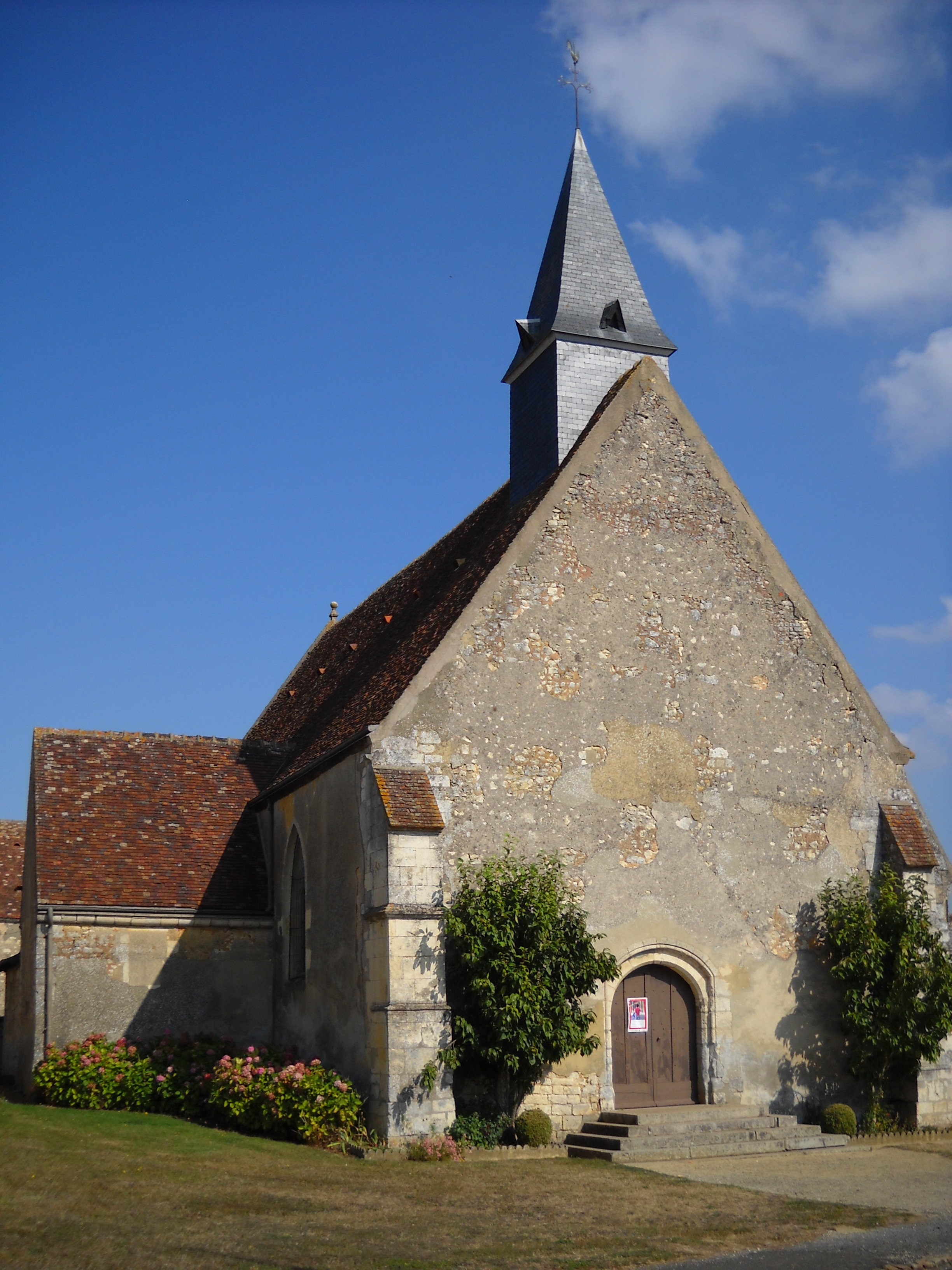 The church of Saint-Agnan-sur-Erre, Orne, France.